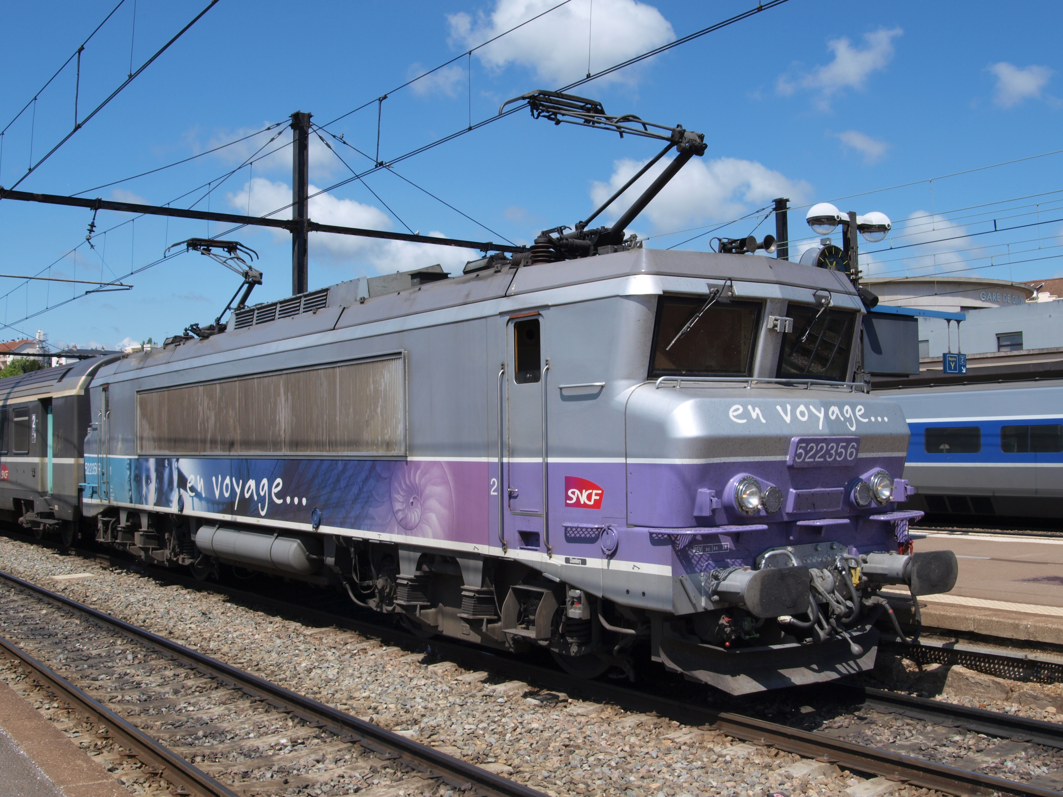 Photographed at Dijon, France.